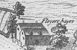 Detail from A drawing of Exeter entitled Civitas Exoniae (vulgo Excester) urbs primaria in comitatu Devoniae in "Civitates Orbis Terrarum", Volume VI, 1617. The work of 6 volumes contains 546 prospects, bird-eye views and map views of cities from all over the world, edited by Georg Braun (1541-1622), a cleric of Cologne, and largely engraved by Franz Hogenberg, published at Cologne, 1572-1617, first volume published in Cologne in 1572, sixth and the final volume appeared in 1617.[1] This map of Exeter Re-published in Lysons, Daniel & Lysons, Samuel, Magna Britannia, Vol.6, Devonshire, London, 1822, p.178[2] Identified on "List of Plates" as "from an old plan in Braun's Civitates Orbis Terrarum 1618"